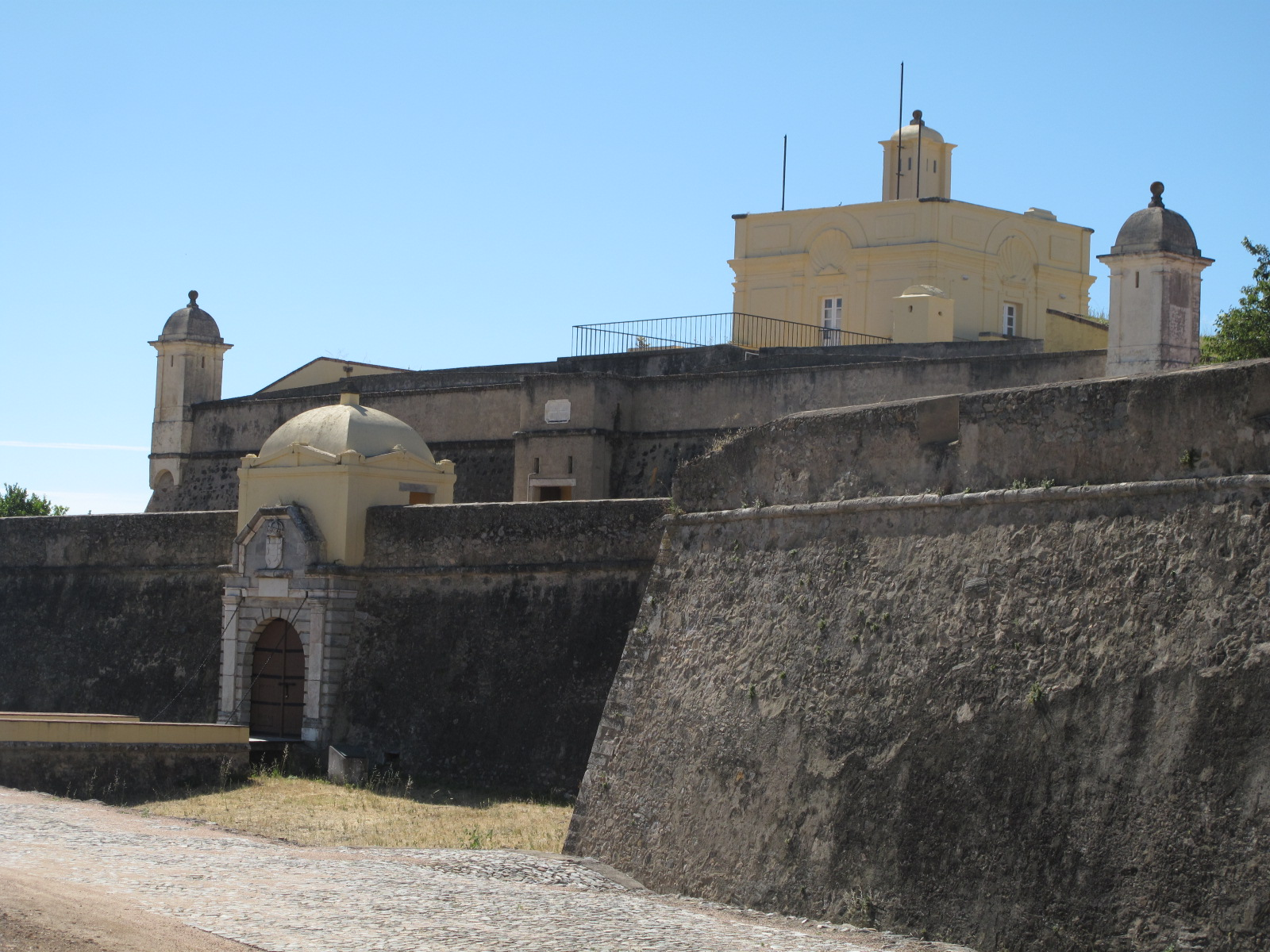 This file was uploaded for Wiki Loves Monuments in Portugal with the unique identifier 97003244.